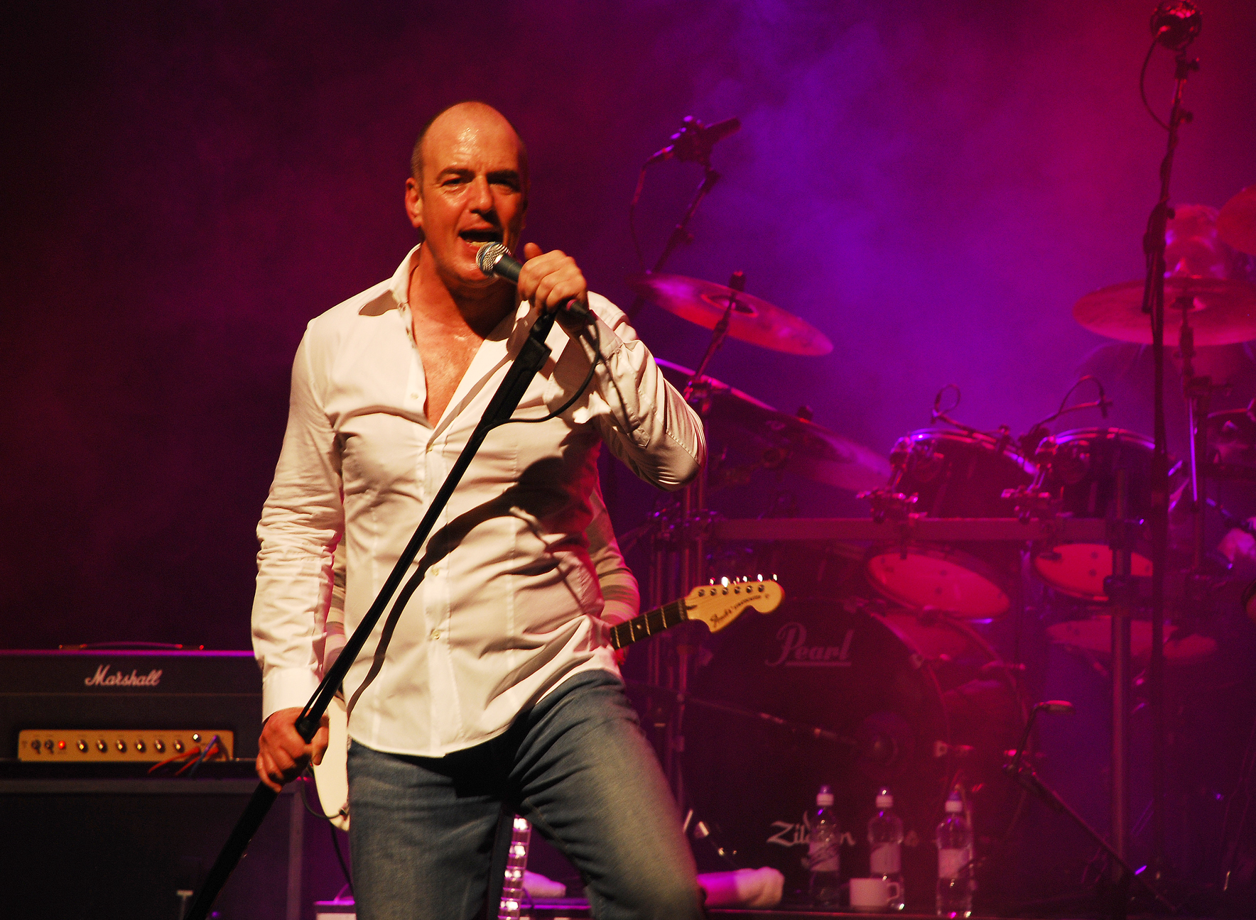 This is Peter Cox from 80's/90's Band Go West on the first date of their tour in the brand new Floral Pavilion Theatre in New Brighton, Wallasey. Yes New Brighton just doesn't have a lighthouse and a beach, it has a small, but intimate concert venue which opened 13 December 2008. Views from the Panoramic Lounge are stunning - You can see the beach from there and the New Brighton Lighthouse Go West really rocked the house, yes I've been a fan since 1985 and they are better than ever. They kicked off with "S.O.S" from their first album (Not the Abba song!) and did 3 brilliant cover versions, "Black and Gold", "The Tracks of my Tears" and my favourite "Chasing Cars" and of course all their classics "King of Wishful Thinking", "Call Me", "Don't Look Down" and "Faithful" to name a few.